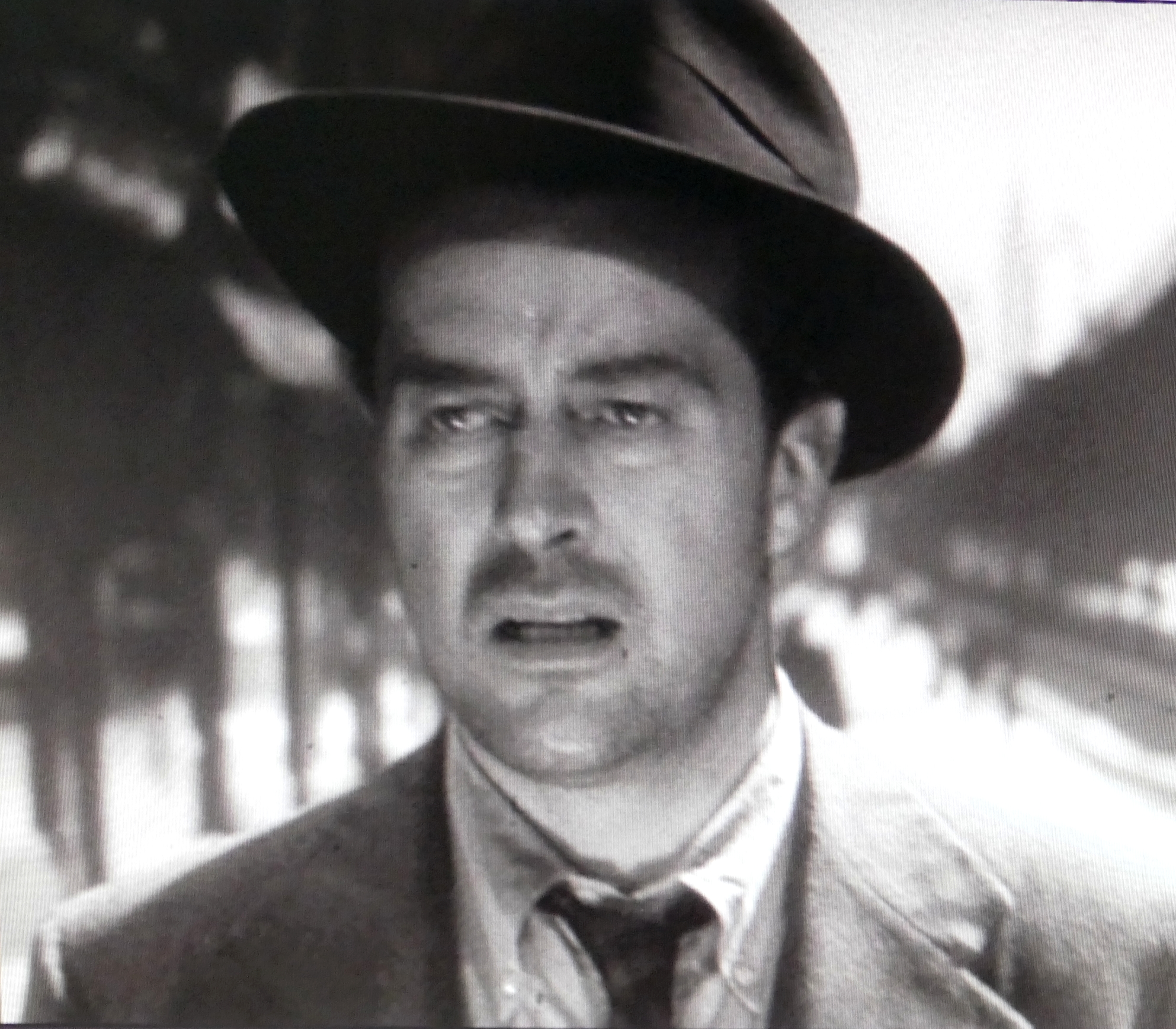 Cropped screenshot with Ray Milland from the trailer for the American film The Lost Weekend (1945) showing Third Avenue El in the background.